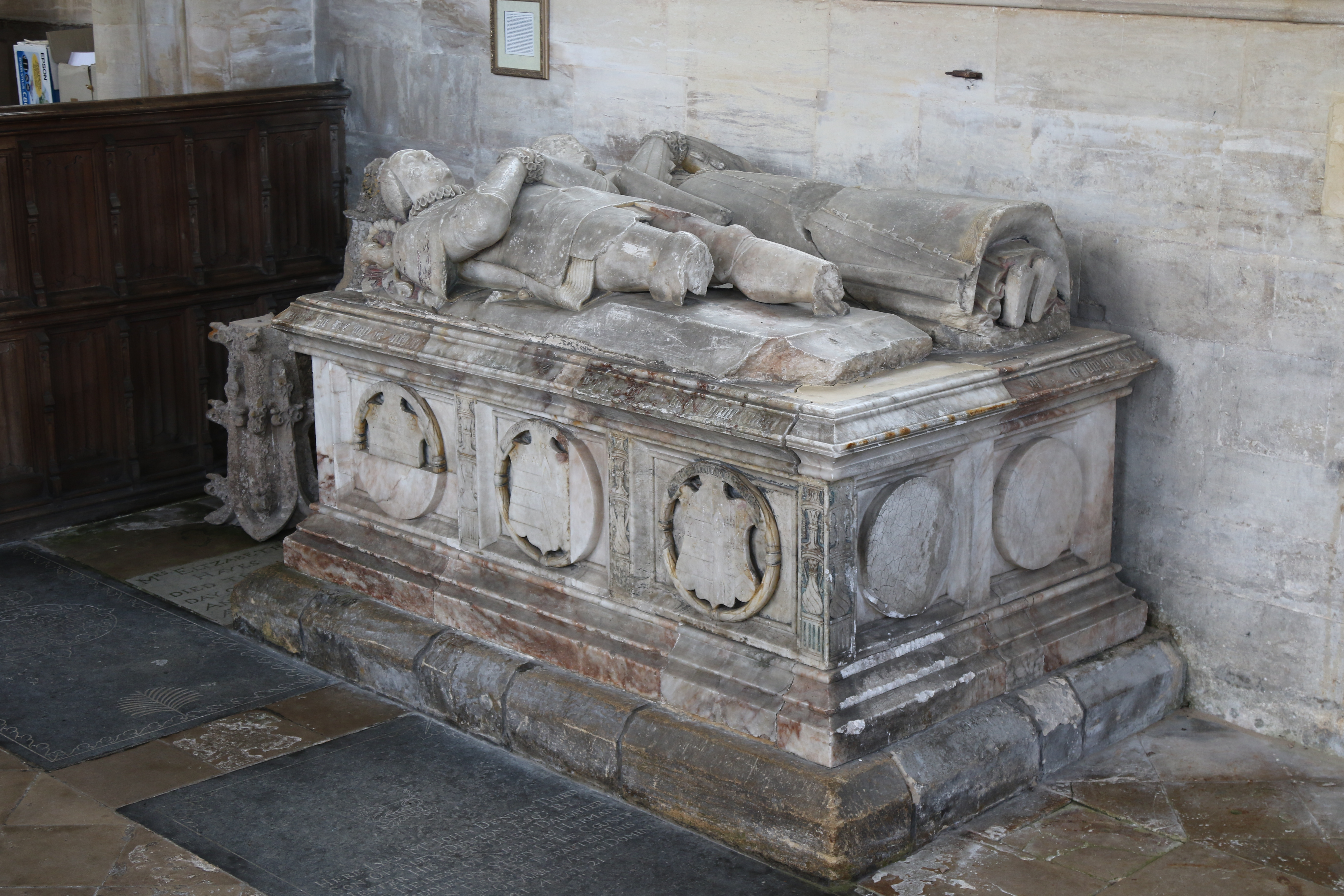 Altar tomb with recumbent effigies of Thomas Denton and wife 1560